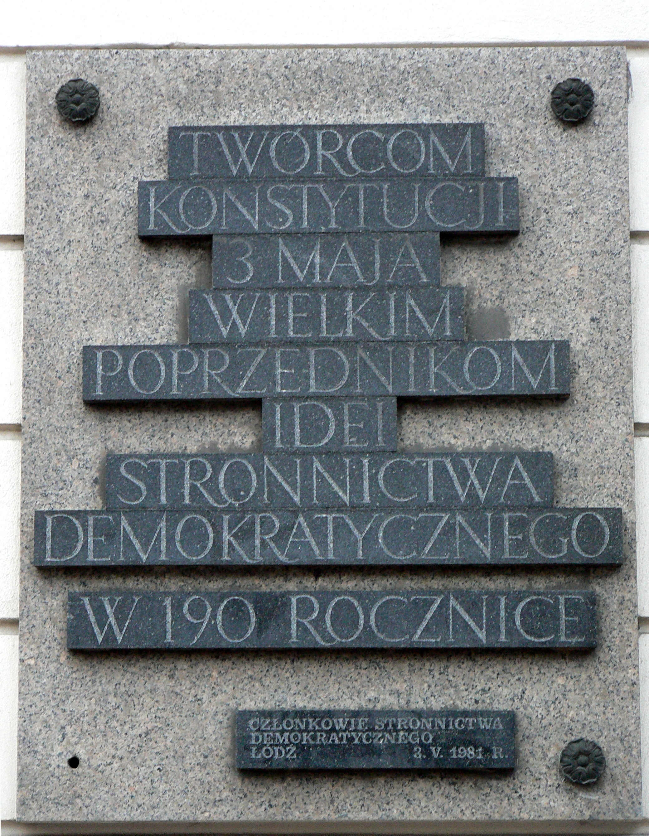 Plaque commemorating the 190th anniversary of the Constitution of May 3, 1791, placed by members of Lodz Stronnictwo Demokratyczne in May, 1981. Piotrkowska Street 99, Łódź.